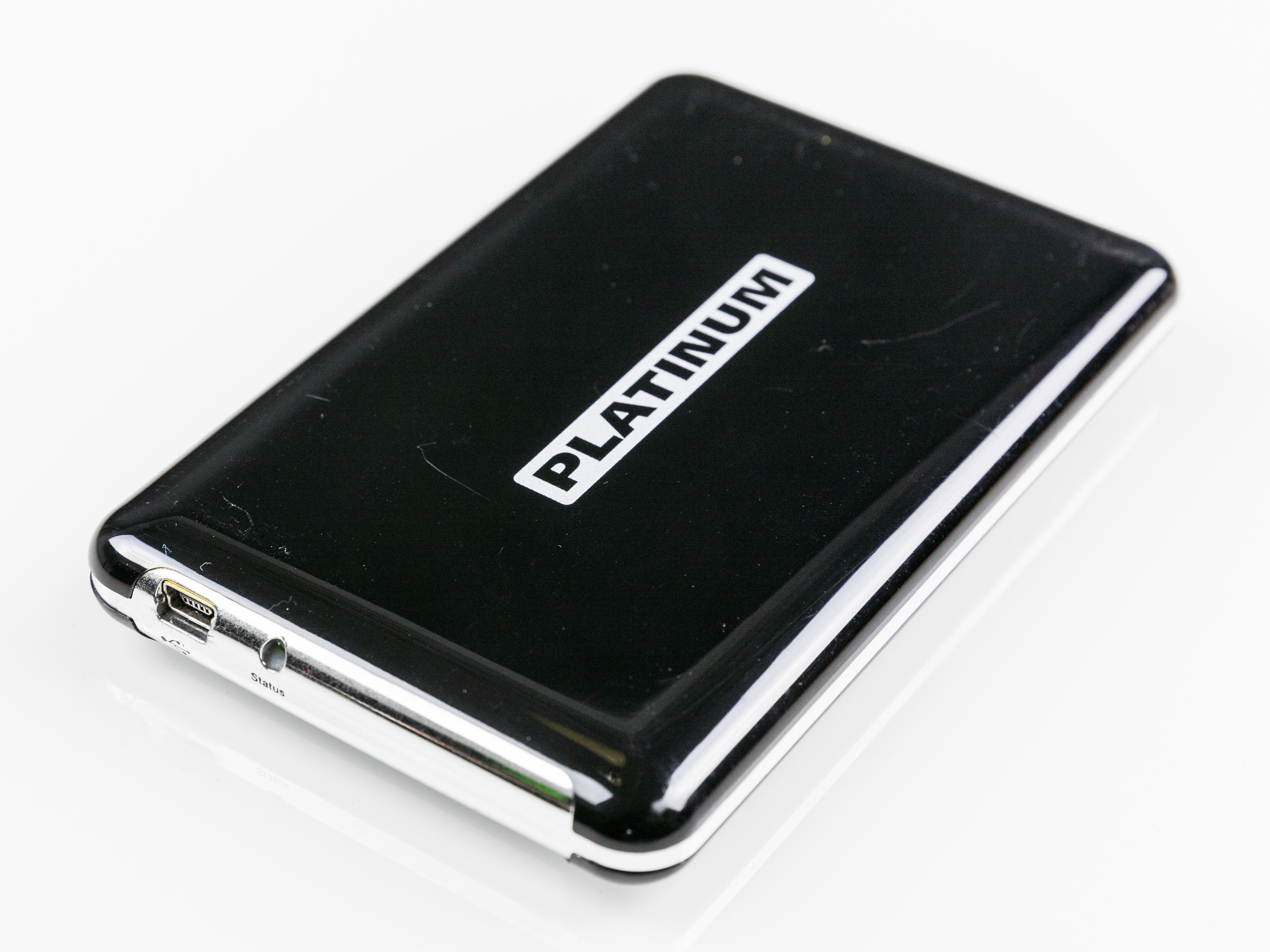 Platinum 500 GB (Model No. 12667)